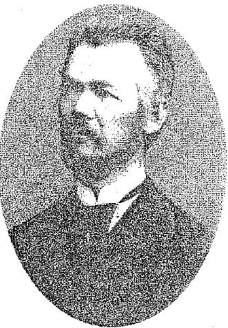 Mihály Nákovich (Miho, or Mihovil, Mihovilj Naković) Burgenland Croatian writer and teacher. Born 1840, death 1900.